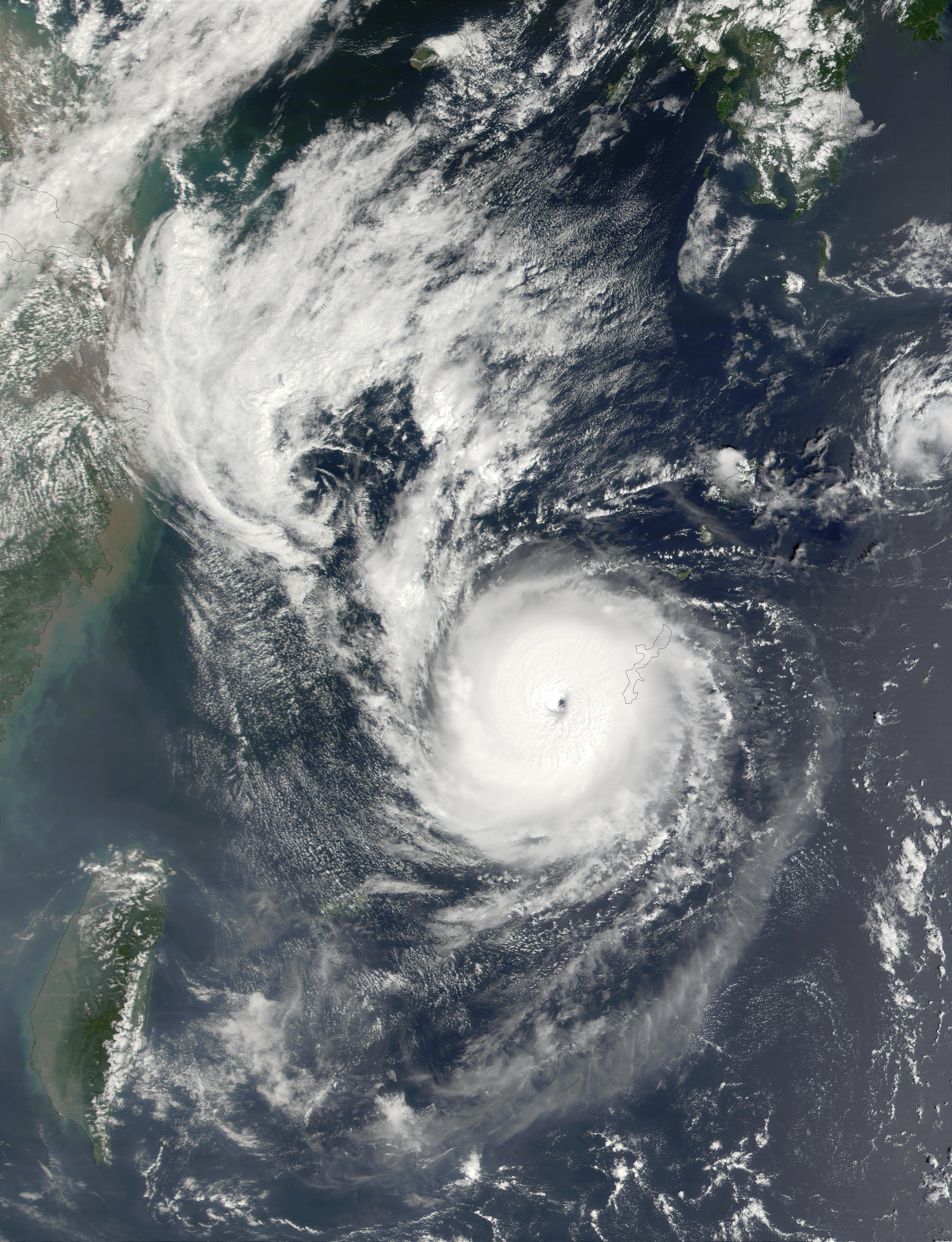 Typhoon Nari on September 11, 2001 at 0210 UTC. Maximum sustained winds (10-minute average) were currently 65 knots. This true-color image of Nari was acquired by the Moderate-resolution Imaging Spectroradiometer (MODIS), flying aboard NASA's Terra satellite, on September 11.